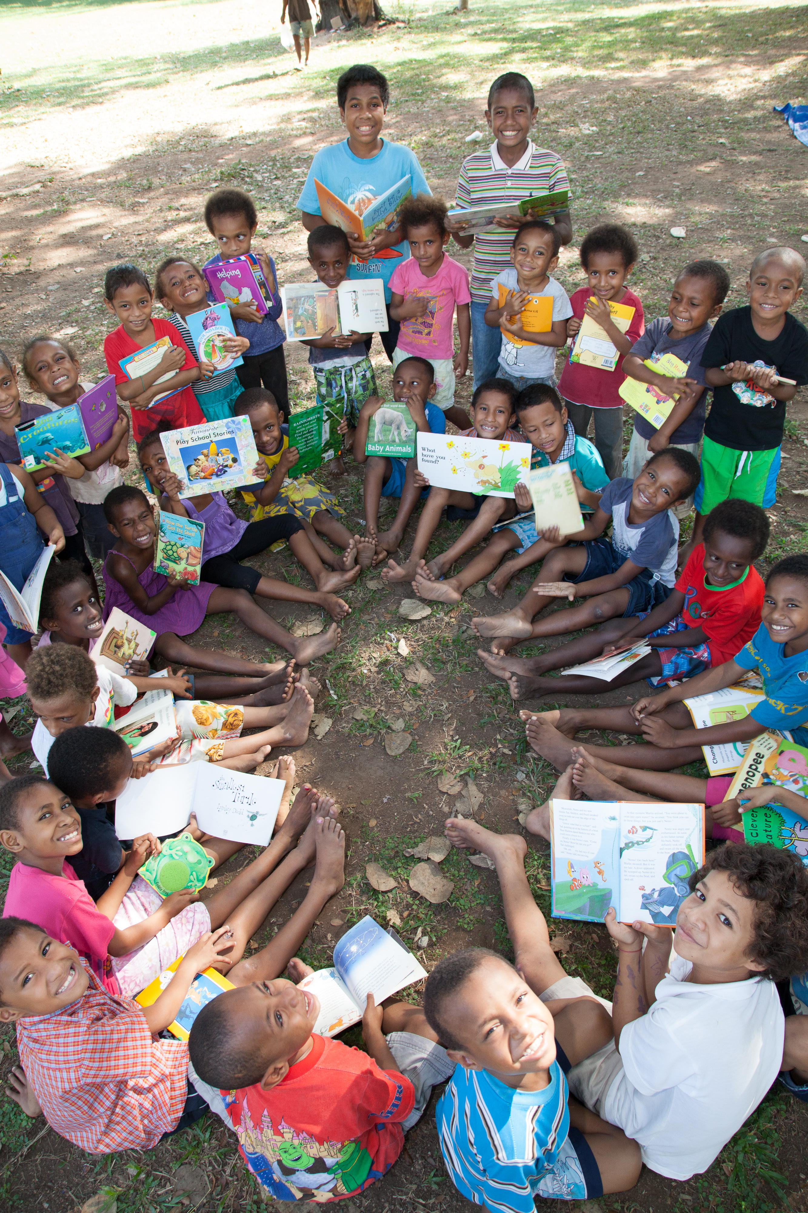 Children at Buk bilong Pikinini (books for children) which is an independent not-for-profit organisation based in Port Moresby, Papua New Guinea, which aims to establish children's libraries and foster a love of reading and learning. In PNG there are few functioning libraries outside the school system and most children do not have access to books at all. Photo taken by Ness Kerton for AusAID. (13/2529)